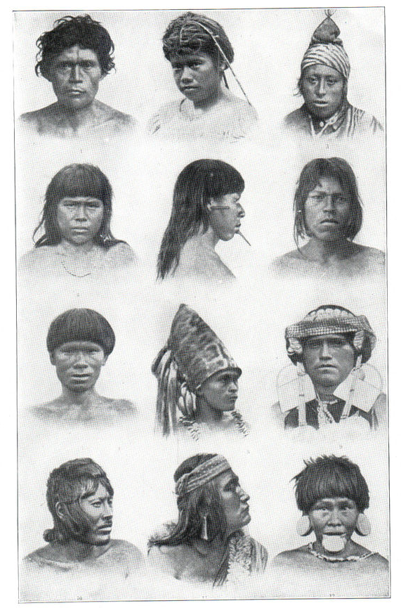 Natives of South America